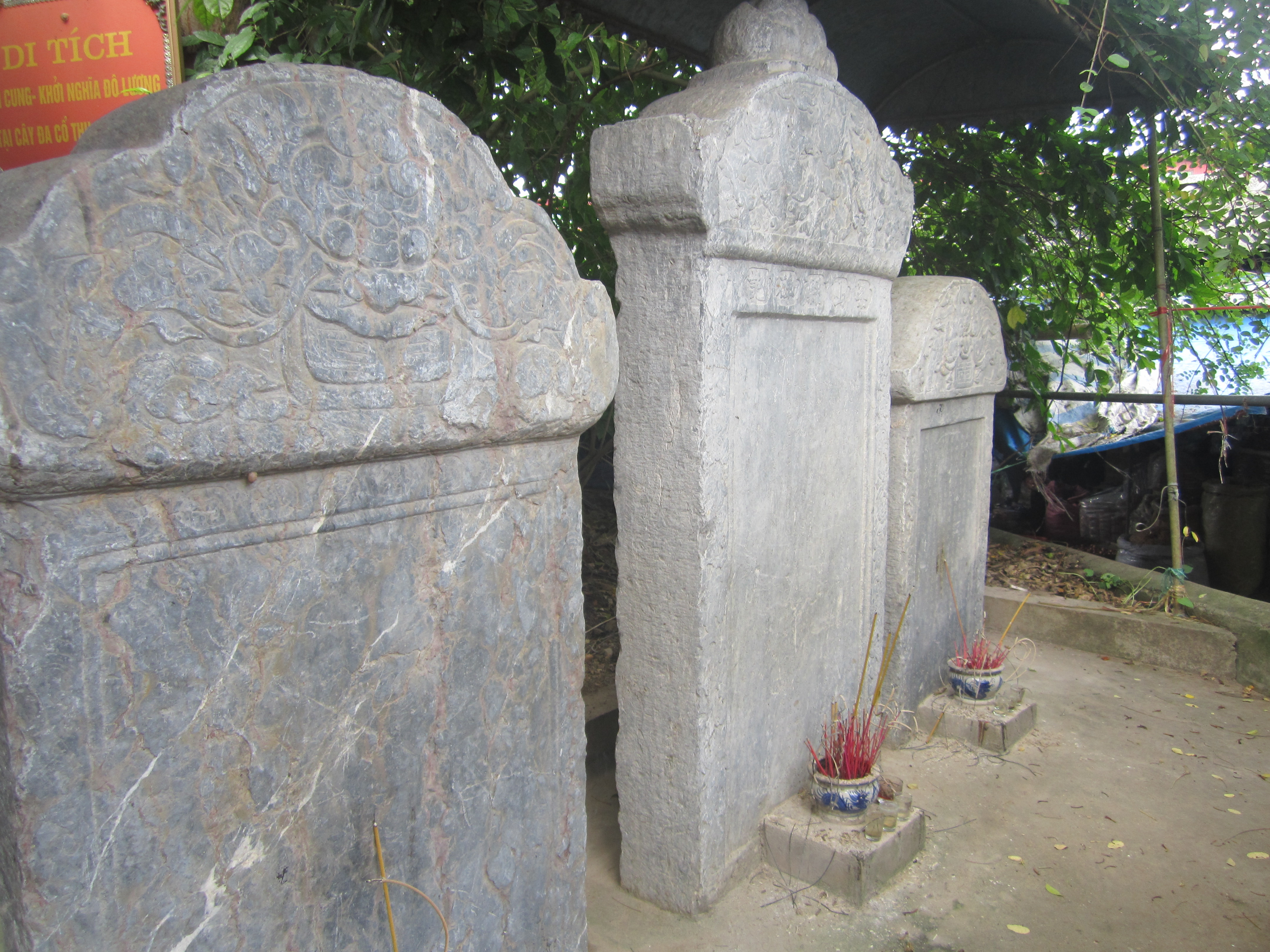 Do Luong General Tombstone, prepared by Flower Detective Nguyen Duc Dat, talks about the formation of Do Luong. Accordingly, this name officially came from 1831, the reign of Emperor Tu Duc.Tombstone is now located in the district banyan tree, after Do Luong district trade center.